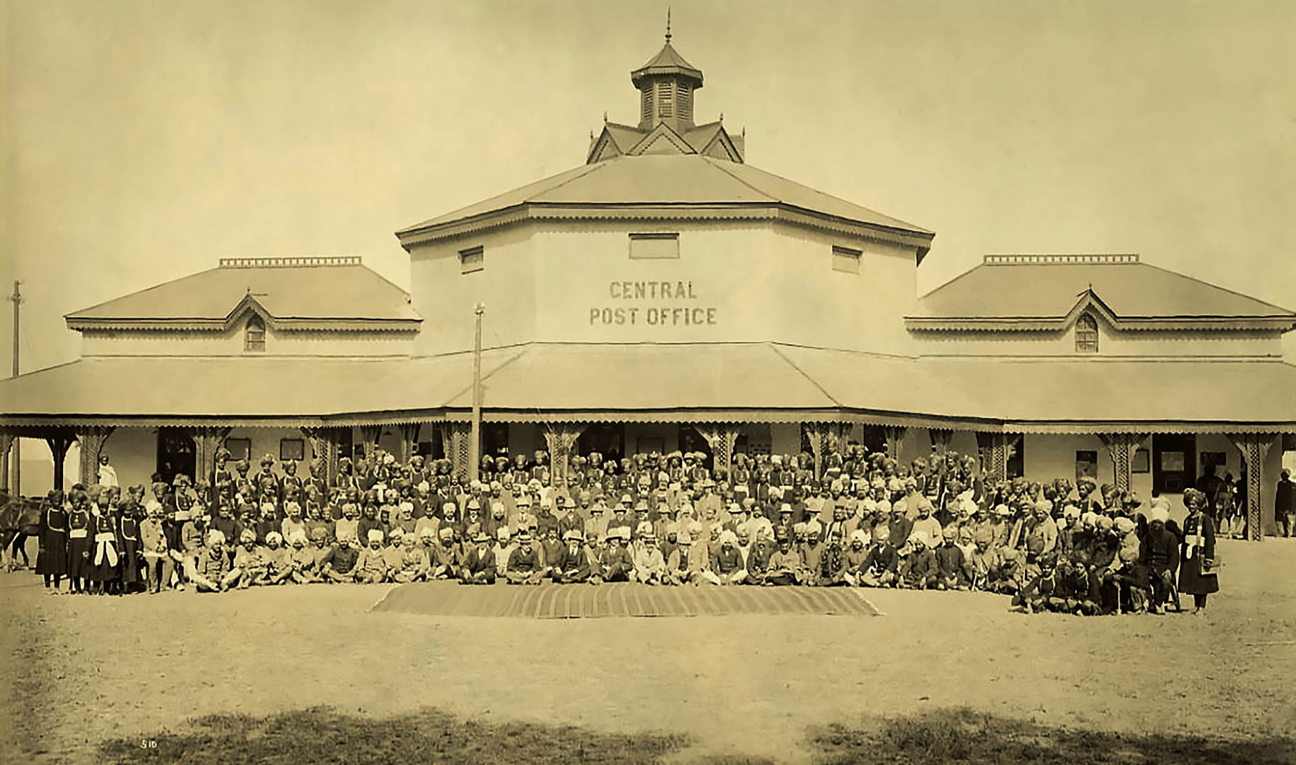 The staff of the Delhi Central Post Office, in a photo by Raja Deen Dayal (to celebrate the coronation of Edward VII).